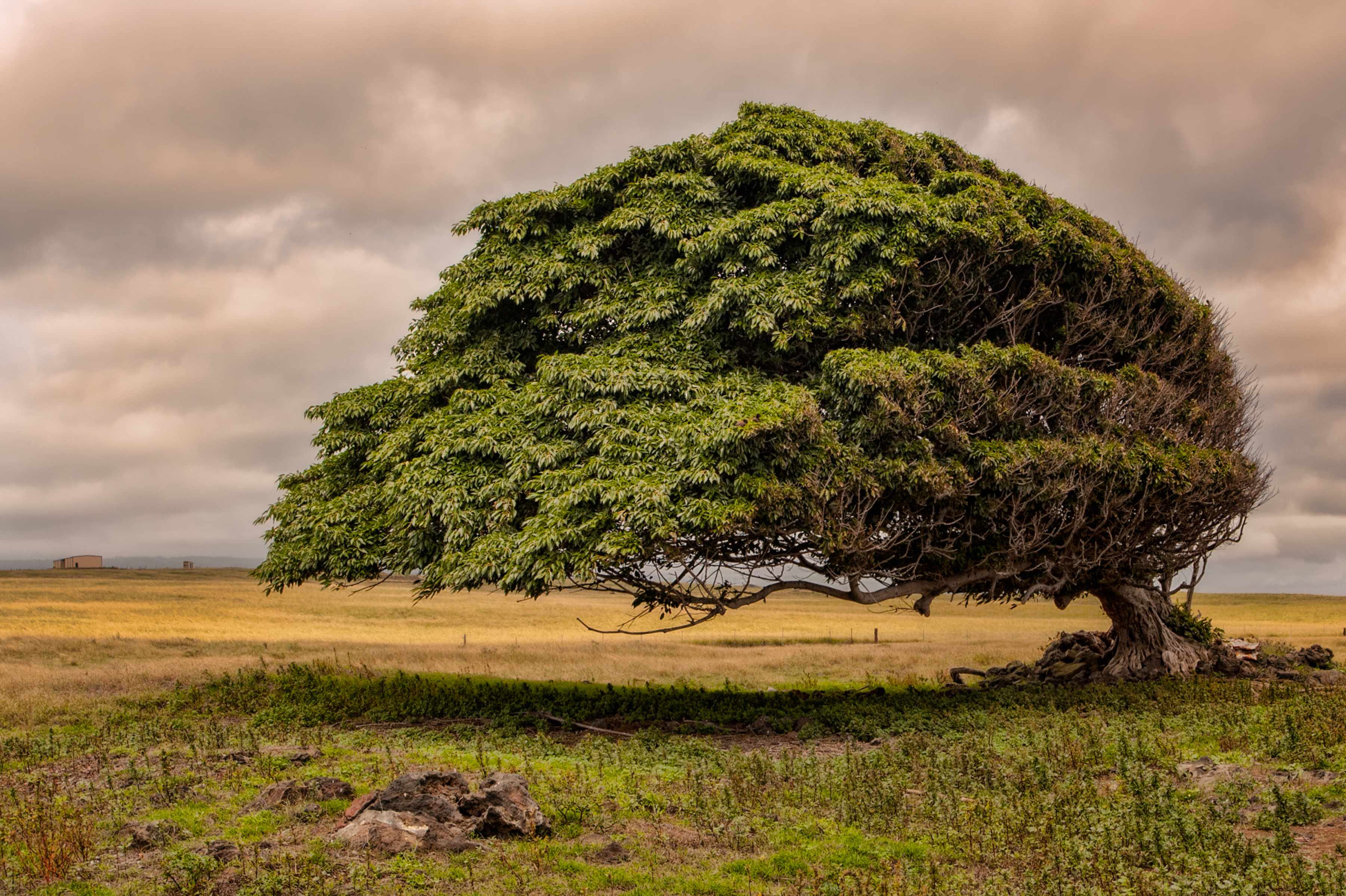 Hawaii, Ka Lae. Wikidata has entry Q1569925 with data related to this item.